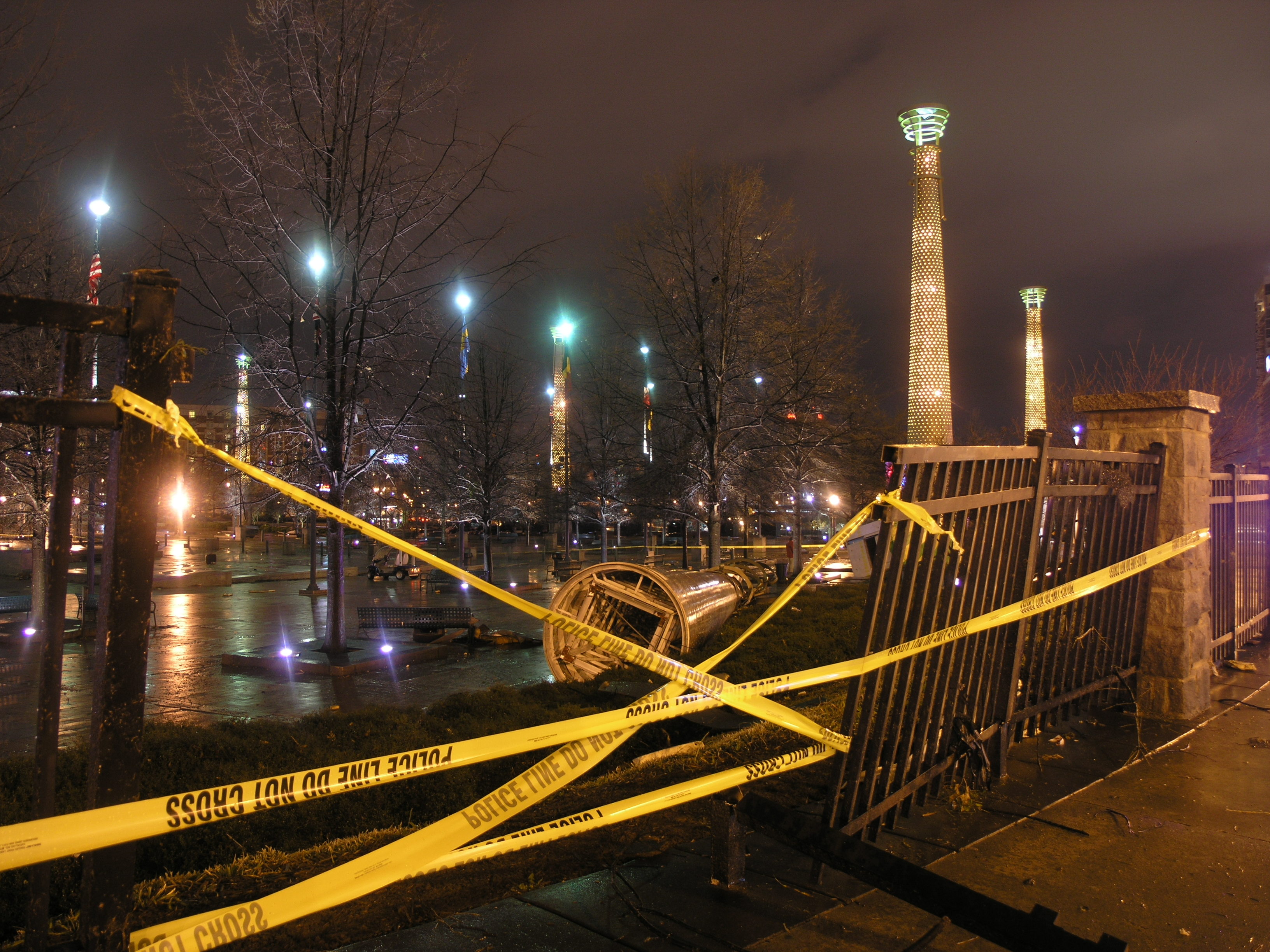 14 March 2008 Downtown Atlanta storm